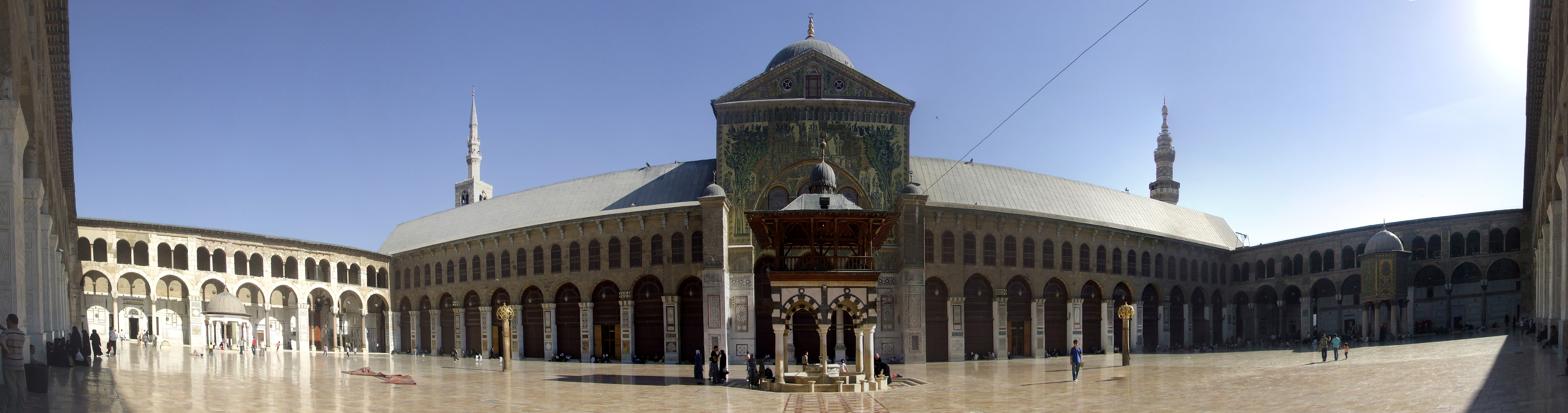 Panoramic photomerge of the Umayyad Mosquée, in Damascus, Syria.